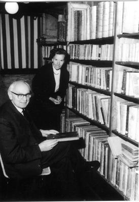 On the Photo: Hofmann, Josef Ehrenfried (left) — Annotation: 7.3.1900 - 10.5.73 — founder and director of the conferences on the history of mathematics from 1954 - 1972 — Location: Oberwolfach